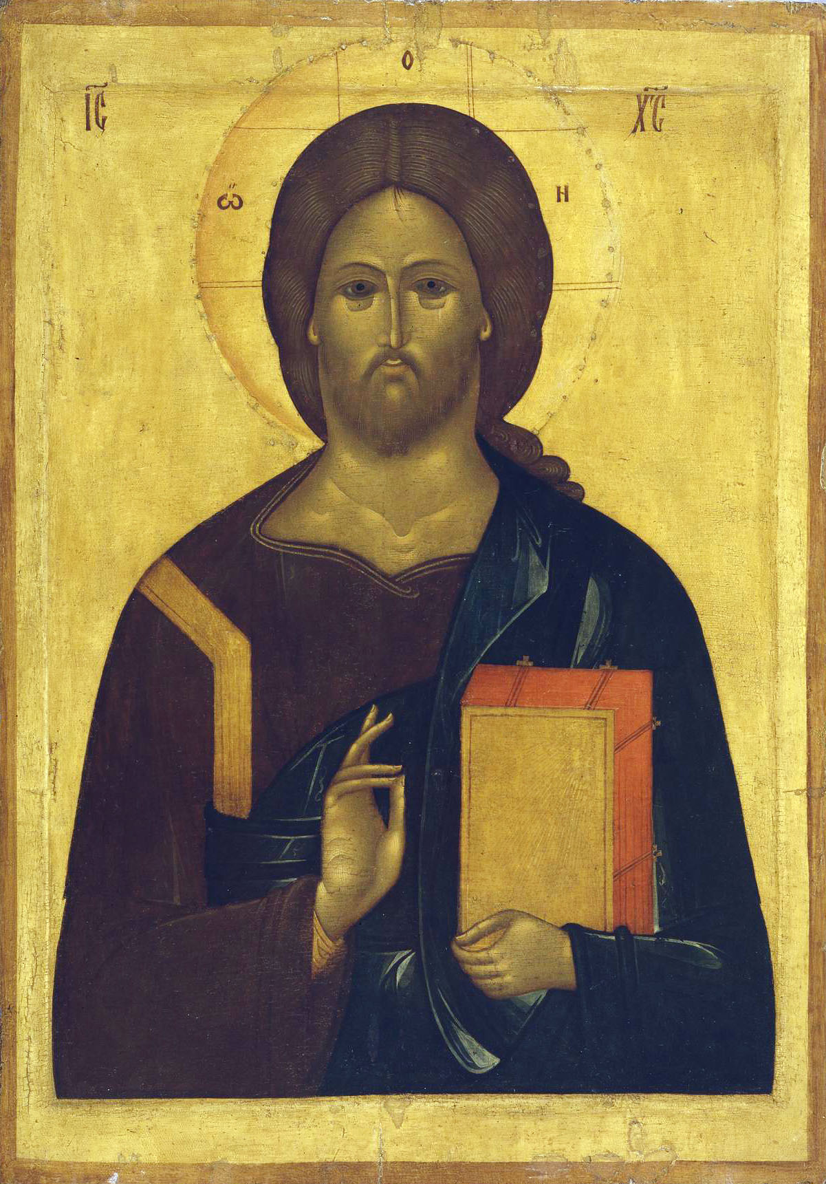 Icon: Christ Pantocrator. Russia. Not later than the 18th century.